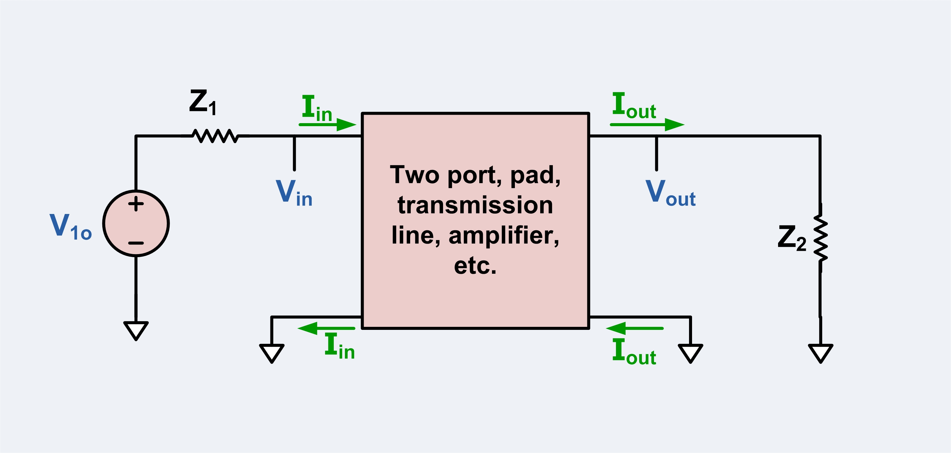 Depicts a two-port with an unbalanced source on port 1 and an unbalanced load on port 2.